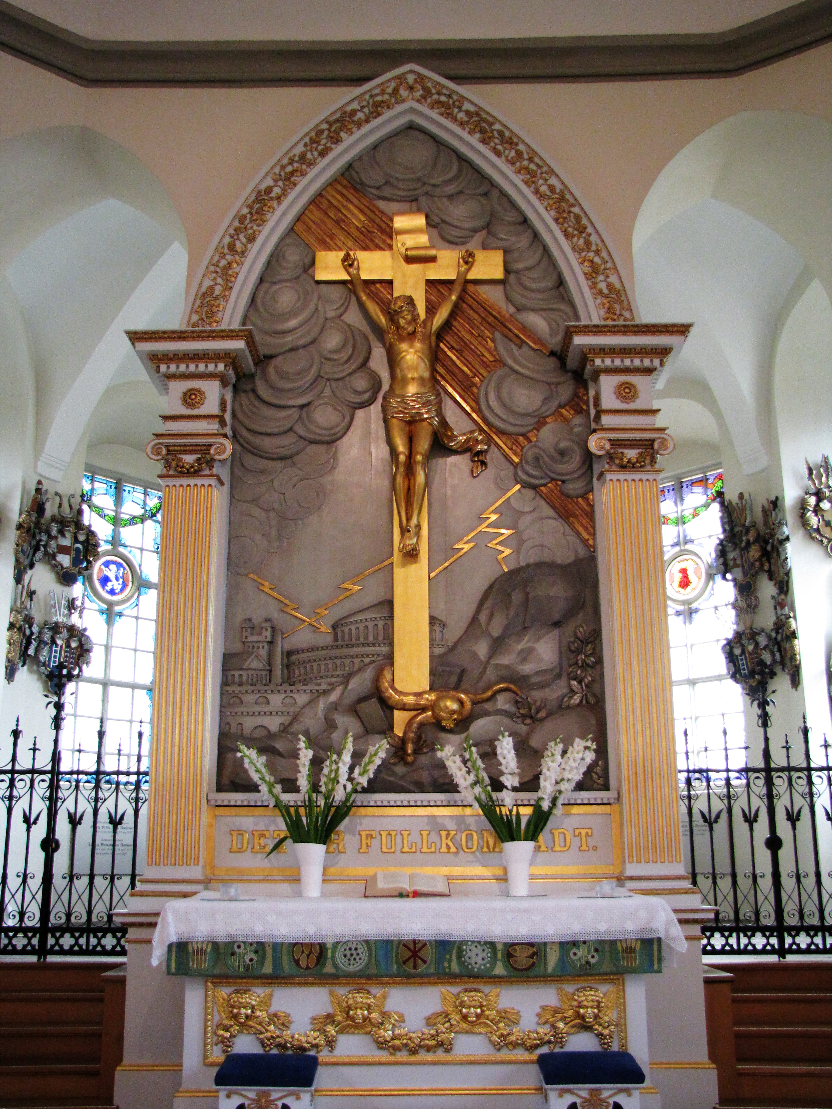 Tyska kyrkan (Christinae kyrka), a church in Göteborg: Altar.